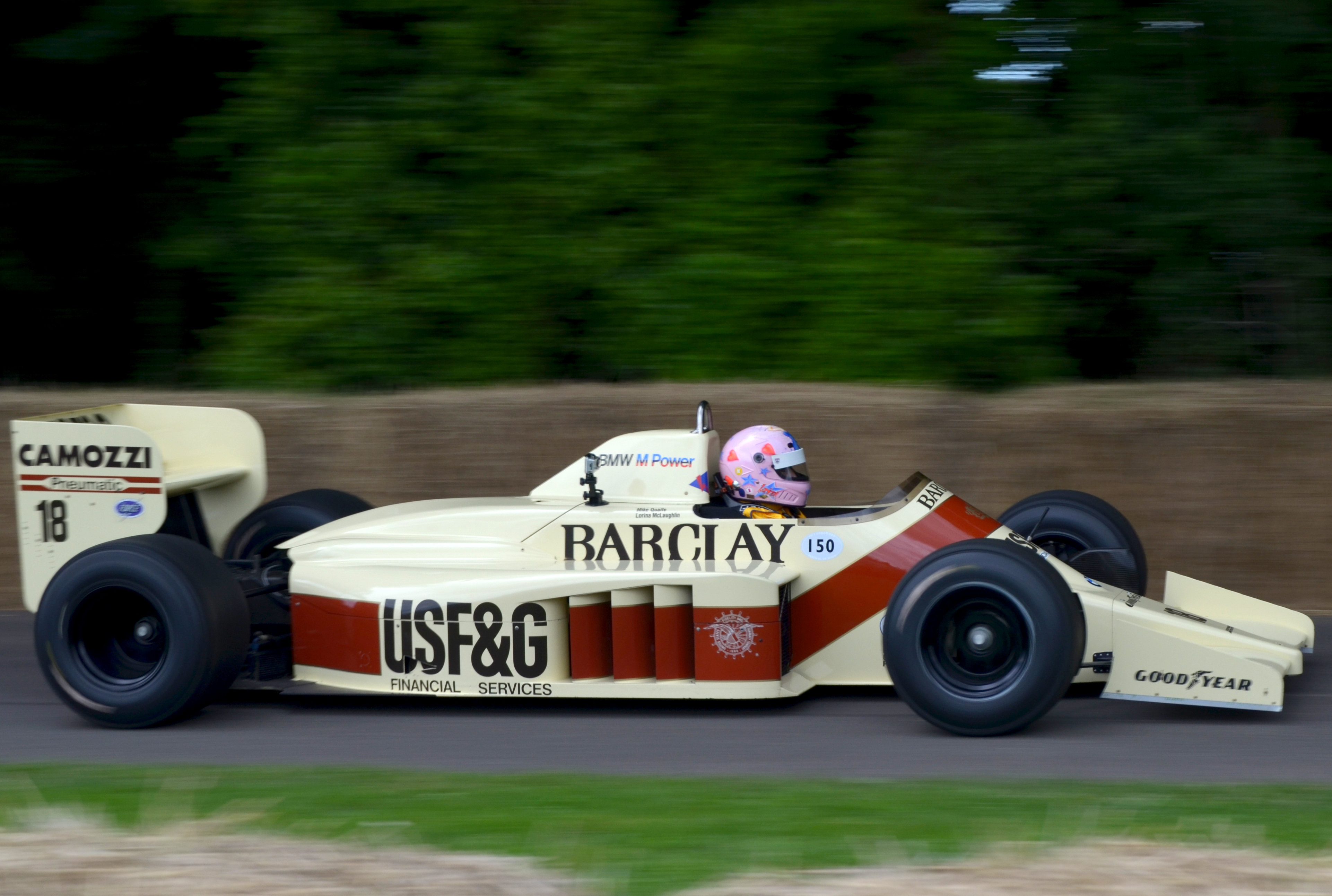 1986 Formula 1 car at the 2012 Goodwood Festival of Speed.